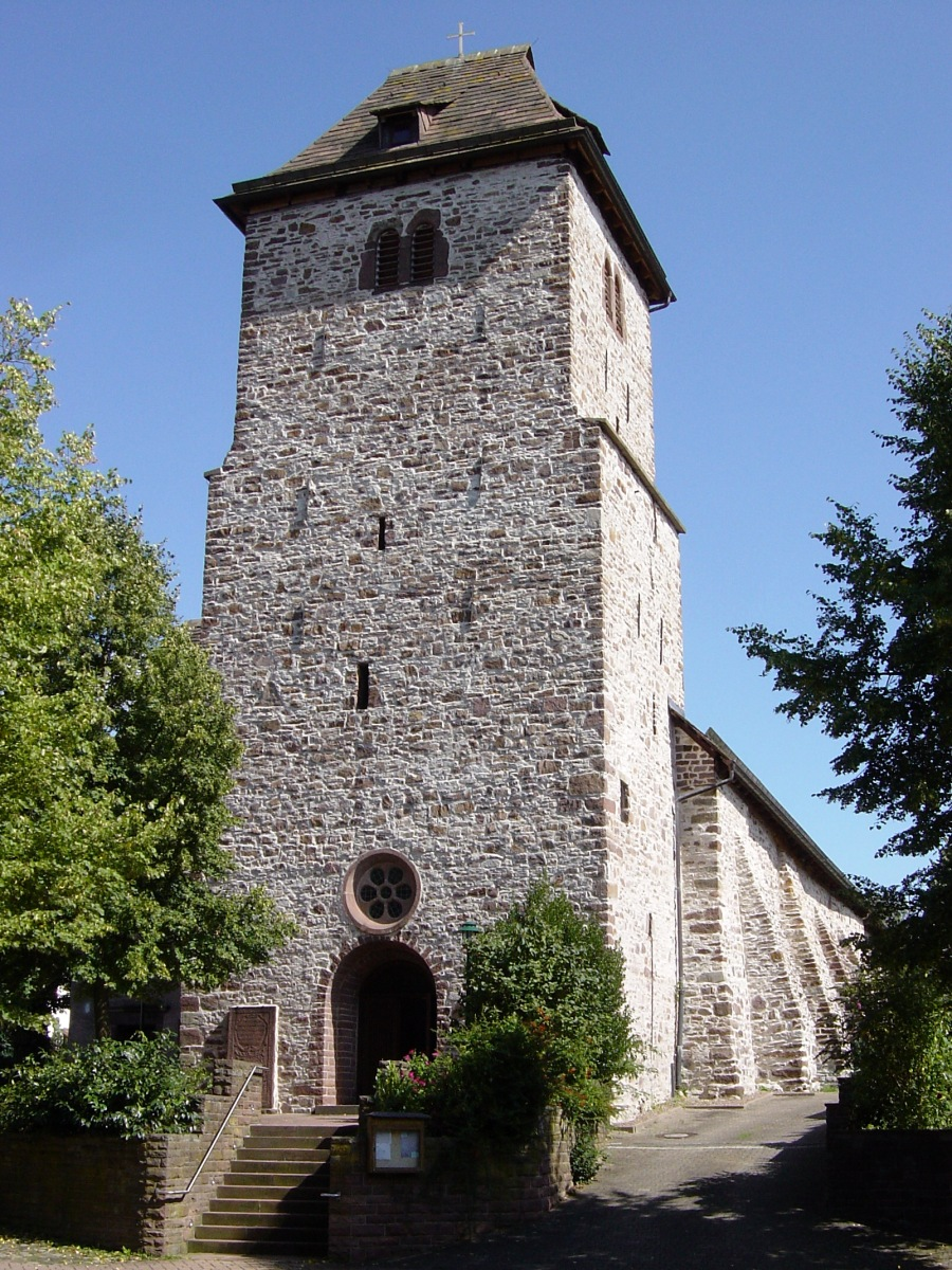 Protestant George's church Amelunxen, Beverungen (Germany)